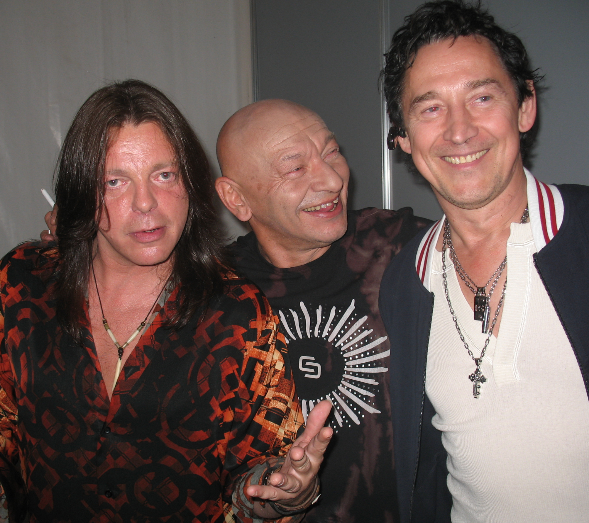 Three of guitarists from Poland.